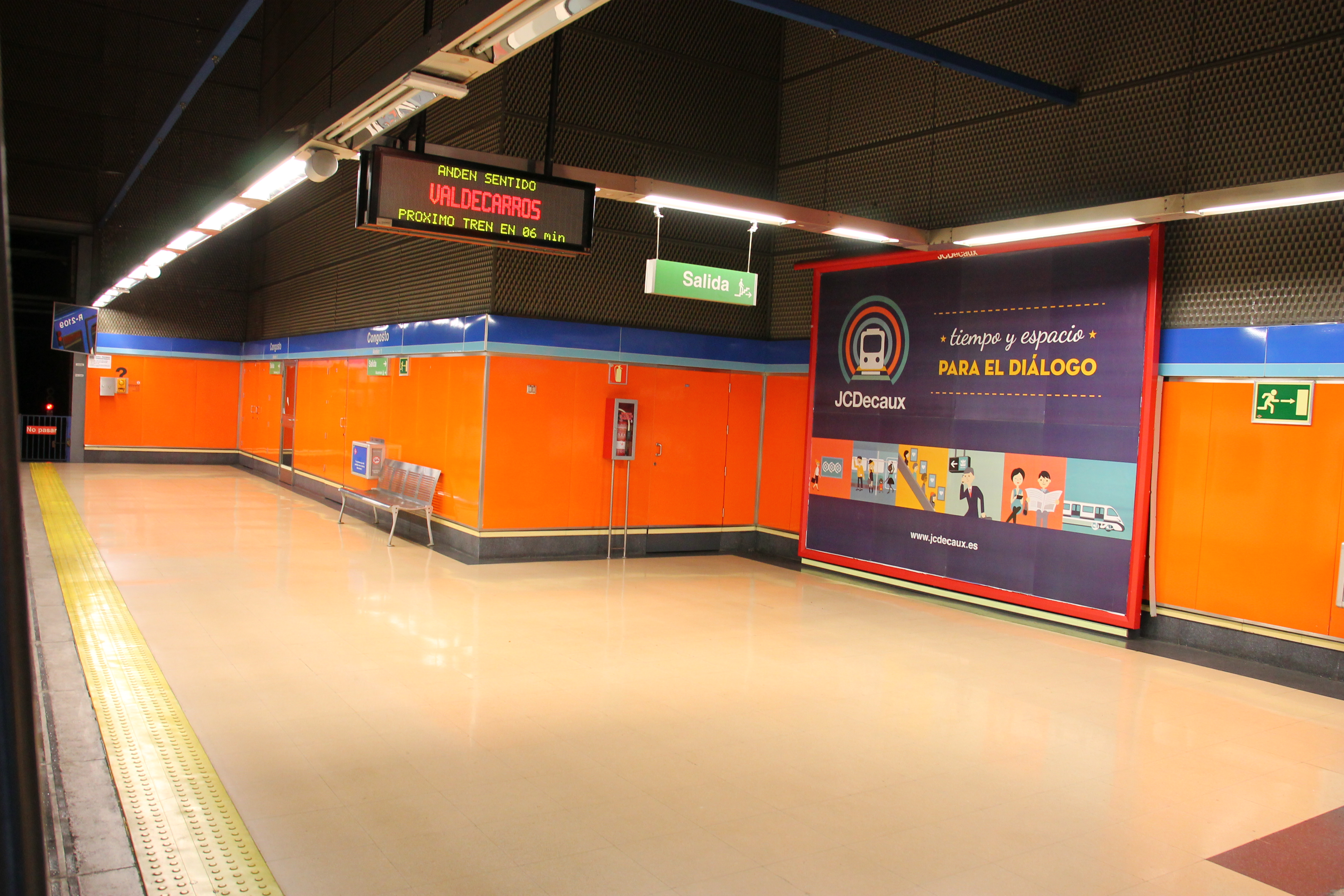 Congosto station. Madrid Metro.